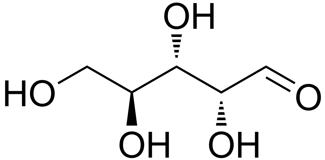 Chemical structure of L-arabinose created with ChemDraw